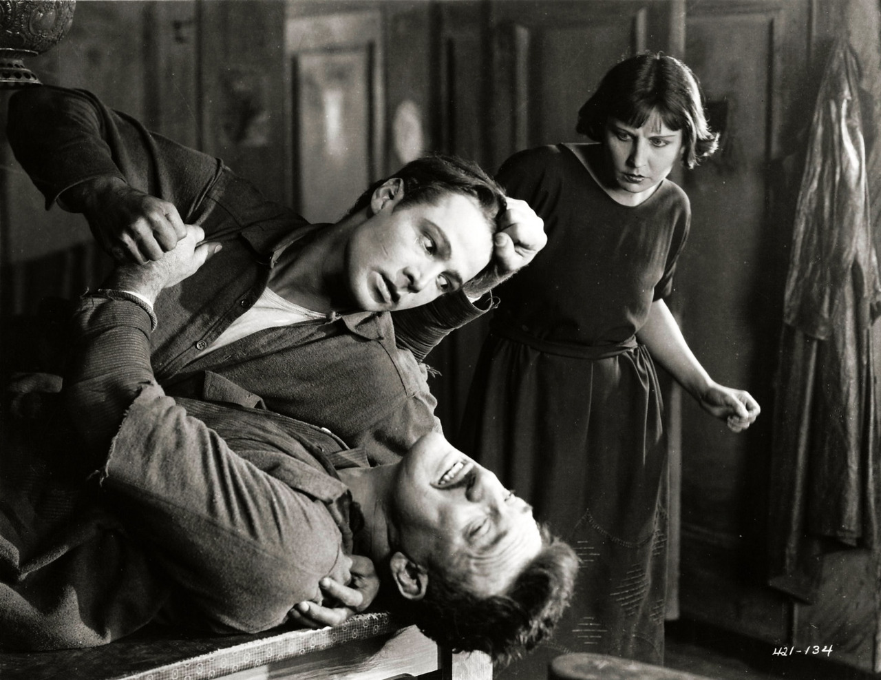 Rudolph Valentino defends Dorothy Dalton from Walter Long in Moran of the Lady Letty